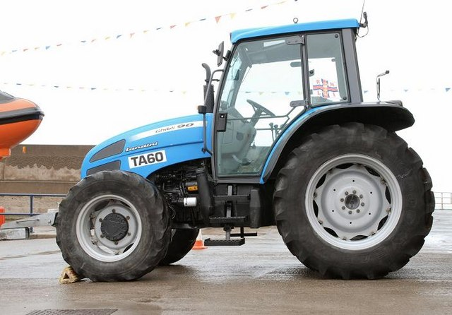 RNLI tractor, 3 km from Bangor, Ireland. The station now has this Landini tractor (TA60). It was formerly based at Kilmore Quay.